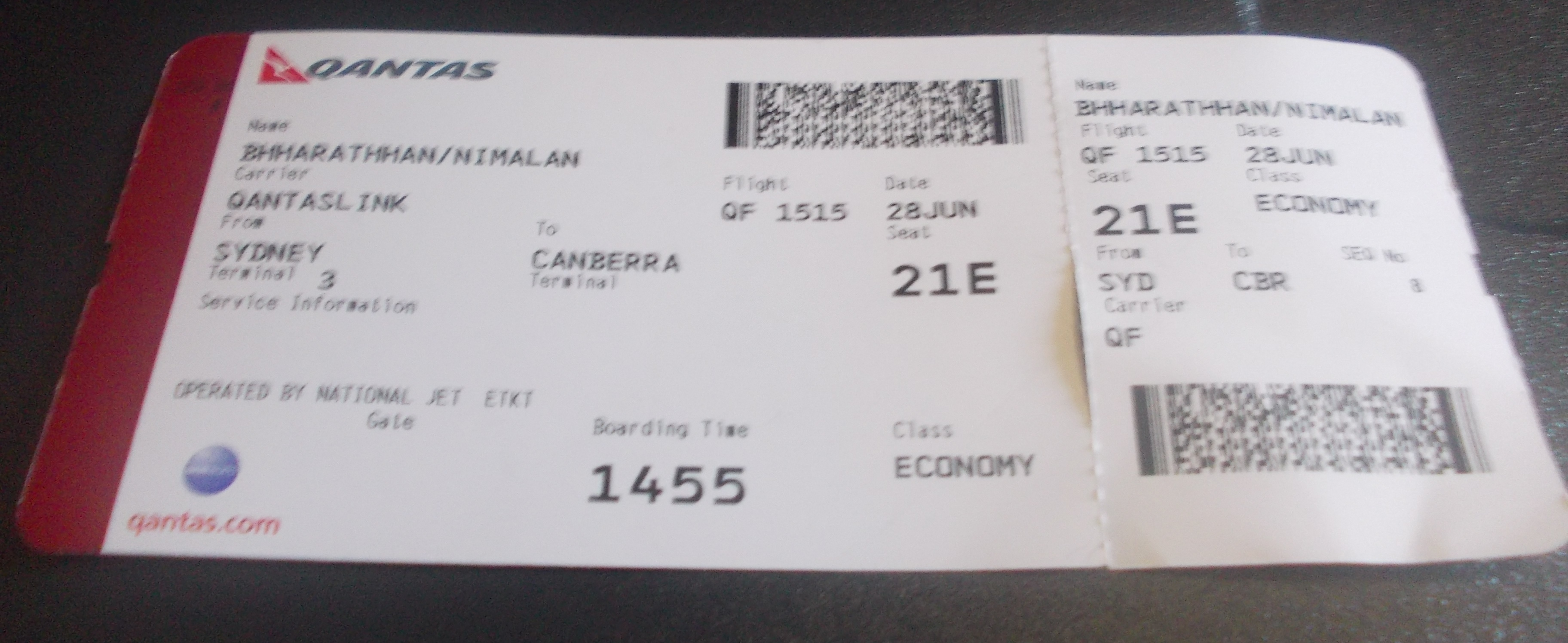 Qantas Boarding Pass for Canberra